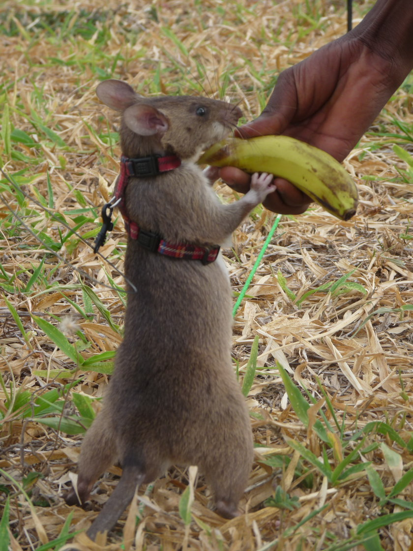 A HeroRAT rewarded with a banana for finding a land mine